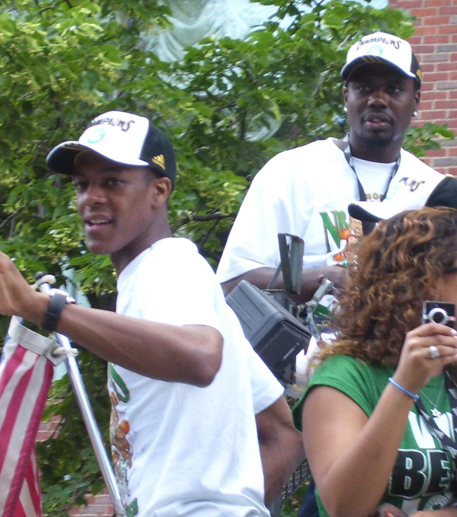 Celtics 17th Championship Parade Boston June 19, 2008